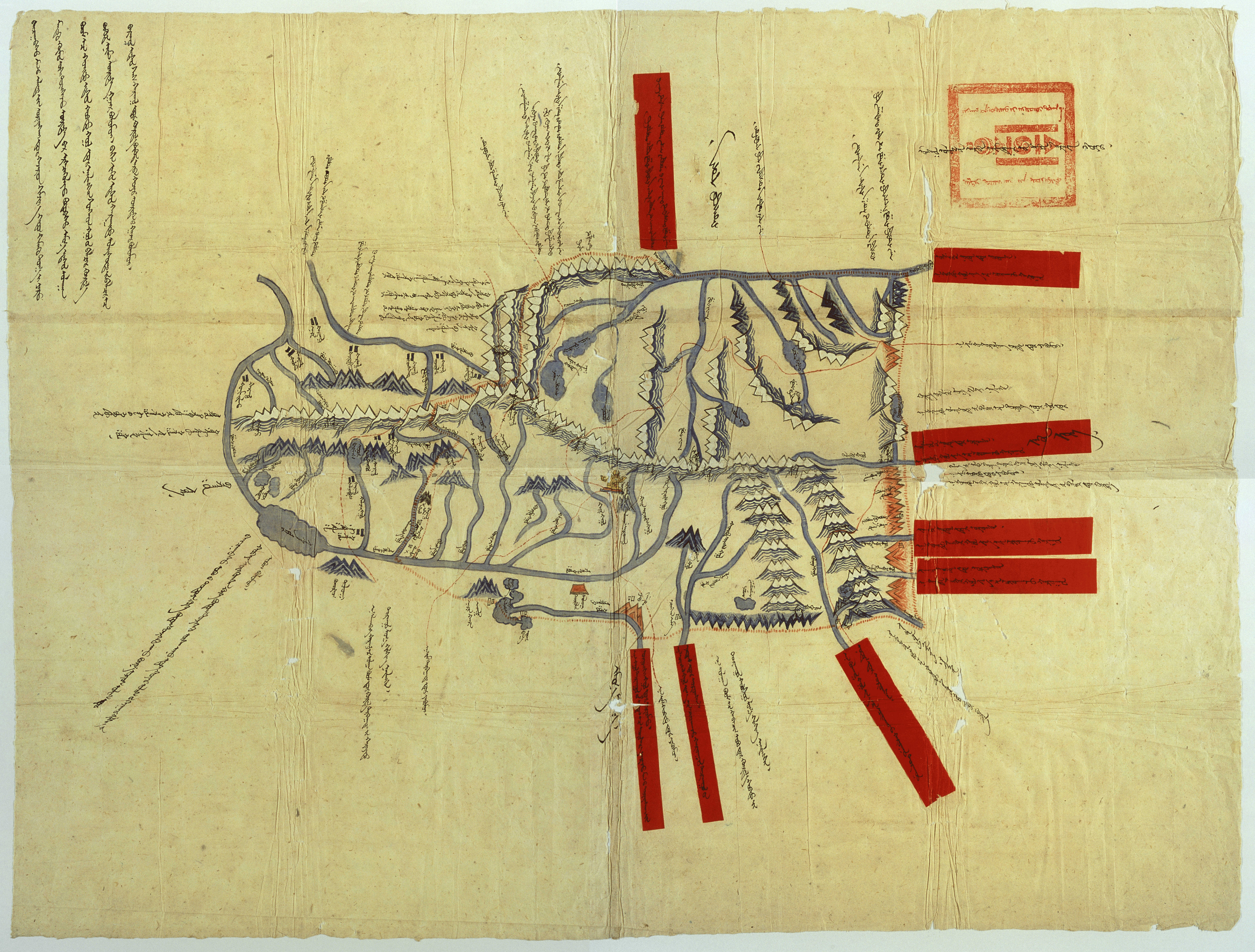 Map of the seven hoshuu (banners) of the Altai Urianhai, created in 1928 in Mongolia. Material is Chinese paper, original size is 77x95 cm. The southwestern part now belongs to Xinjiang, China, the northeastern and eastern parts to Bayan-Ögii and Hovd aimags in Mongolia. See also Kamimura's article, p.12.